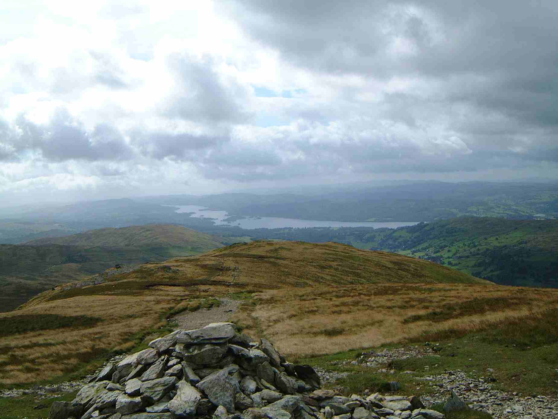 Windermere seen from the southern cairn on the summit plaeau. Personal photograph taken by Mick Knapton on September 6th 2001